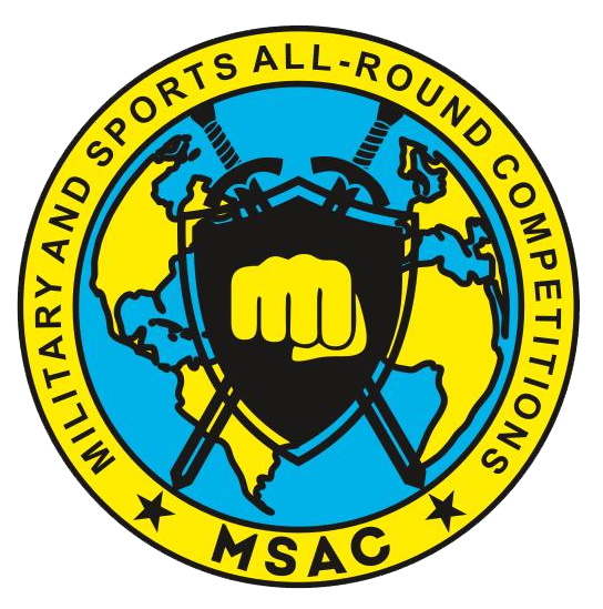 MSAC logo